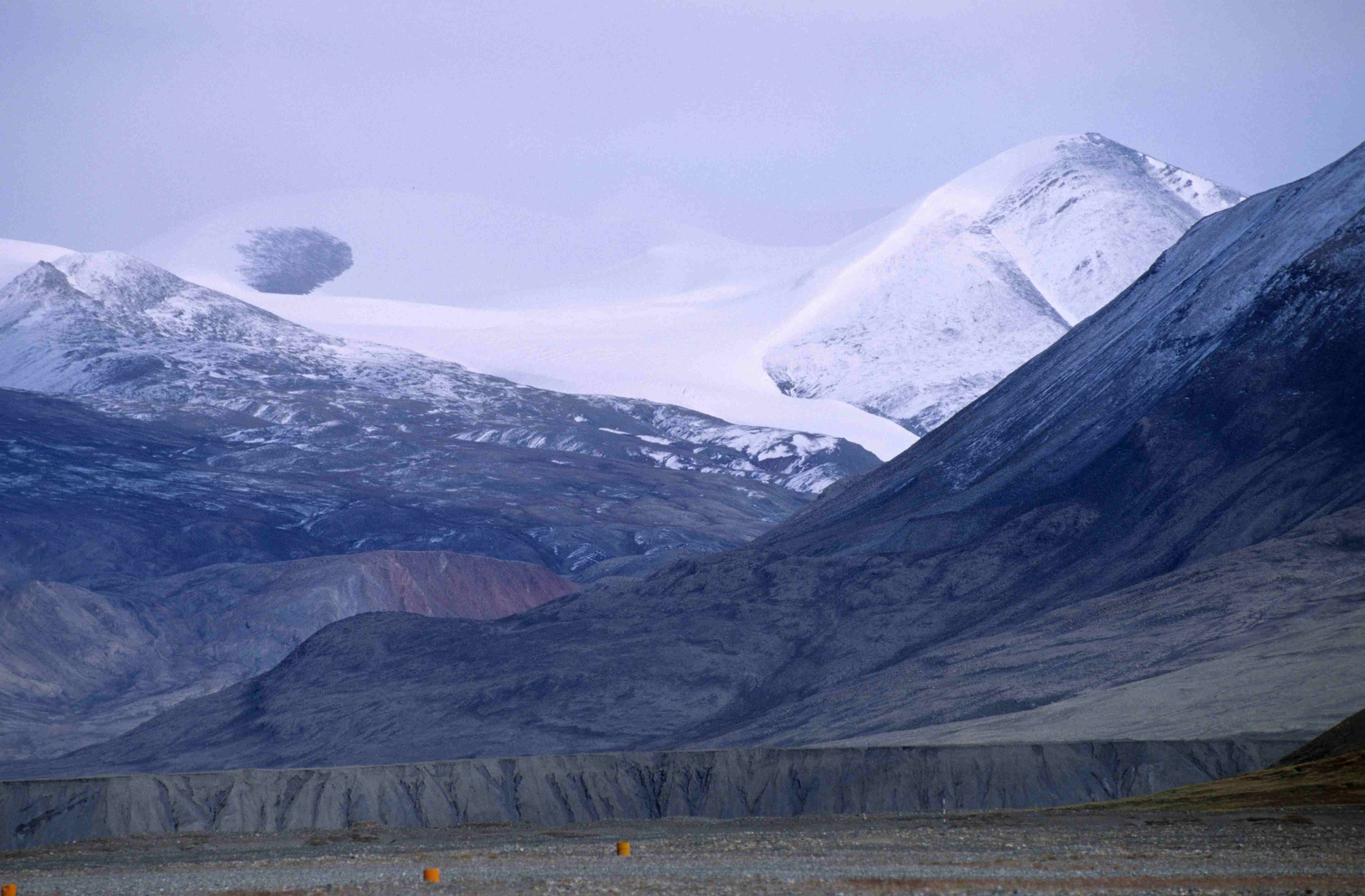 Tanquary Fiord: View to Conger Range and Ad Astra Icecap; Quttinirpaaq National Park, Nunavut, Canada